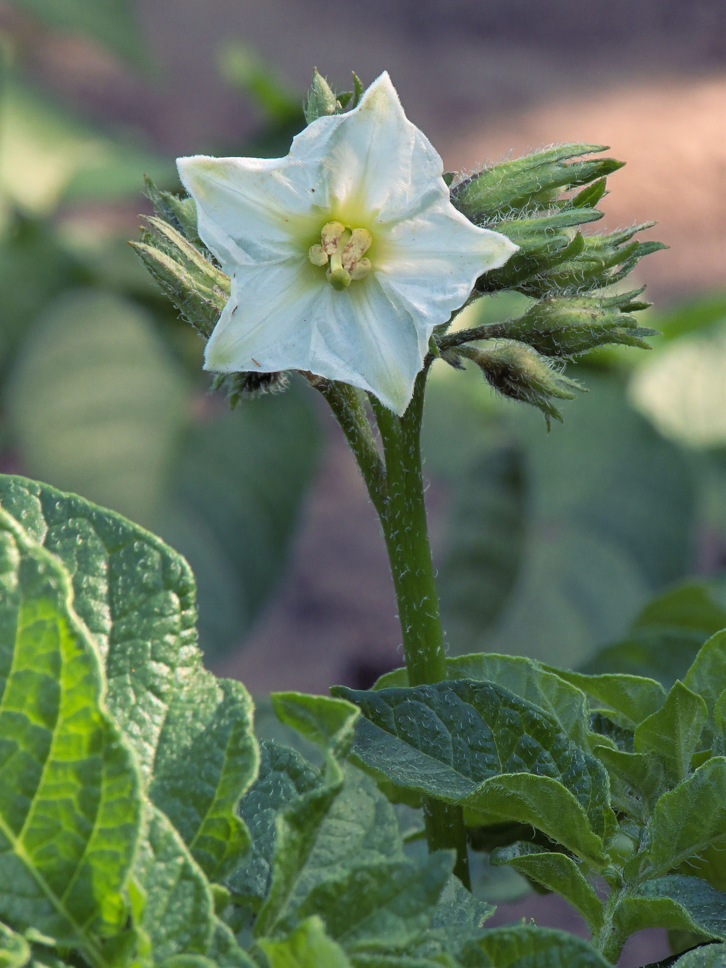 Solanum tuberosum flower, 'Doré'